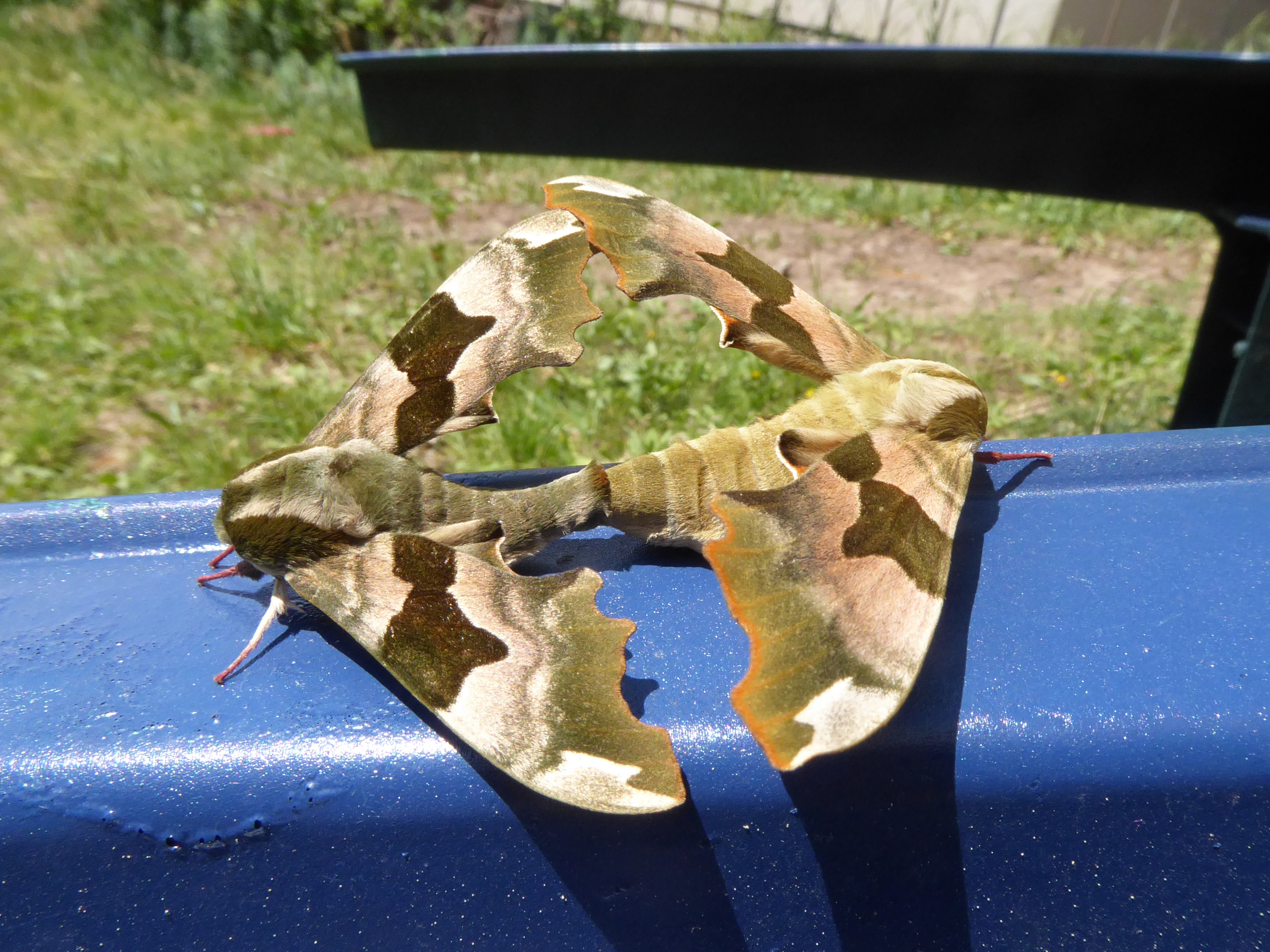 Mimas tiliae mating couple, Piazzo (Segonzano, Trentino, Italy)